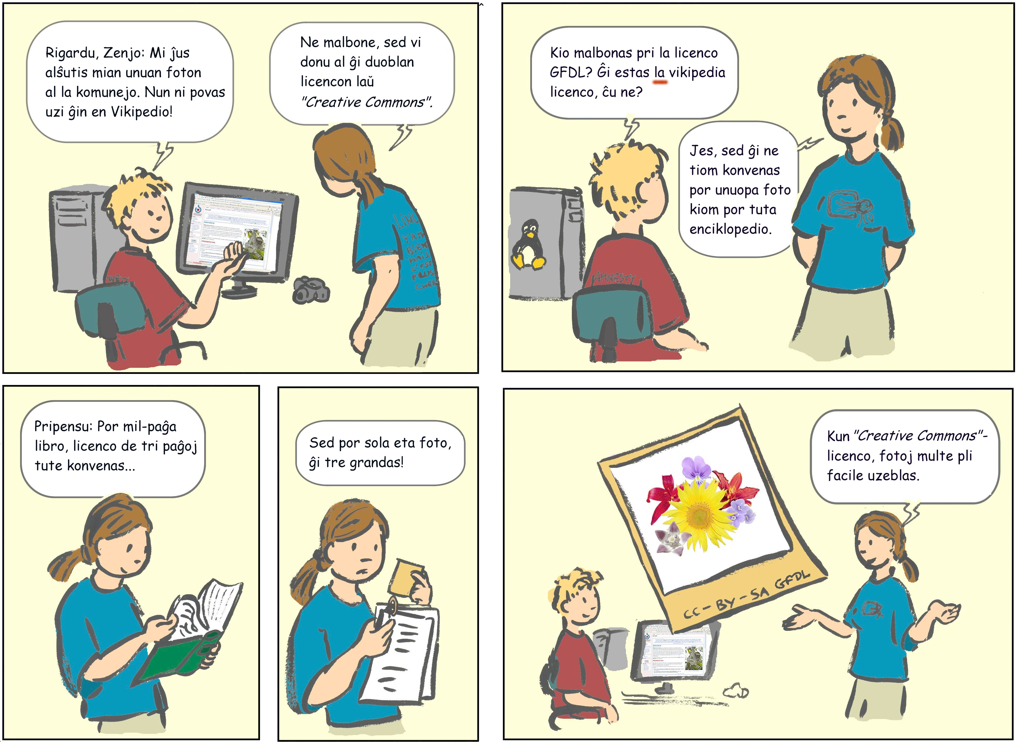 Demonstration for reason to use double license GFDL-CC-BY-SA (without text).